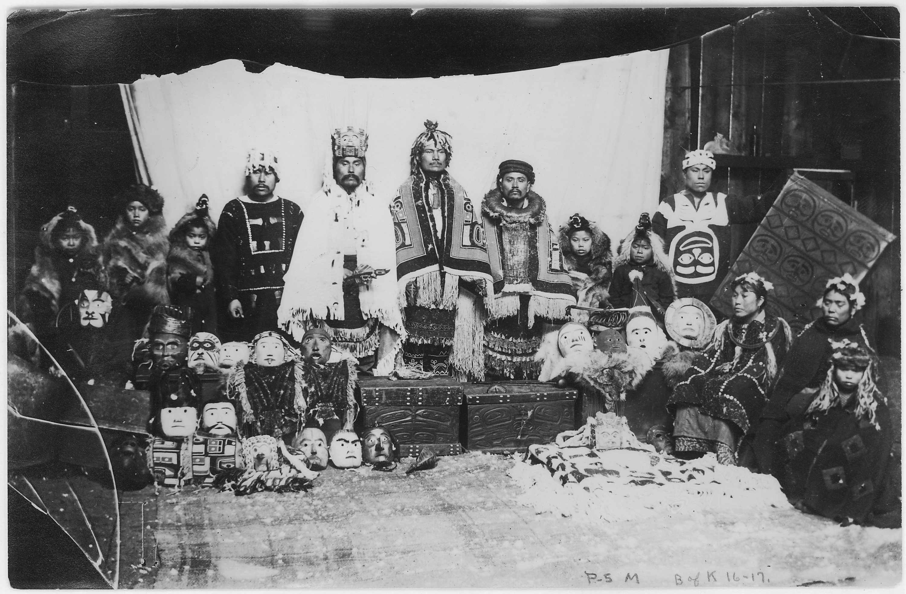 Attributed to B.A. Haldane in Bringing our History into Focus: Re-Developing the work of B.A. Haldane, 19th Century Tsimshian Photographer by Mique’l Askren; April 16, 2010 who identifies the photograph as Chief James Skean and his family, Gitlakdamiks (Aiyansh B.C.) taken by B.A. Haldane in 1914